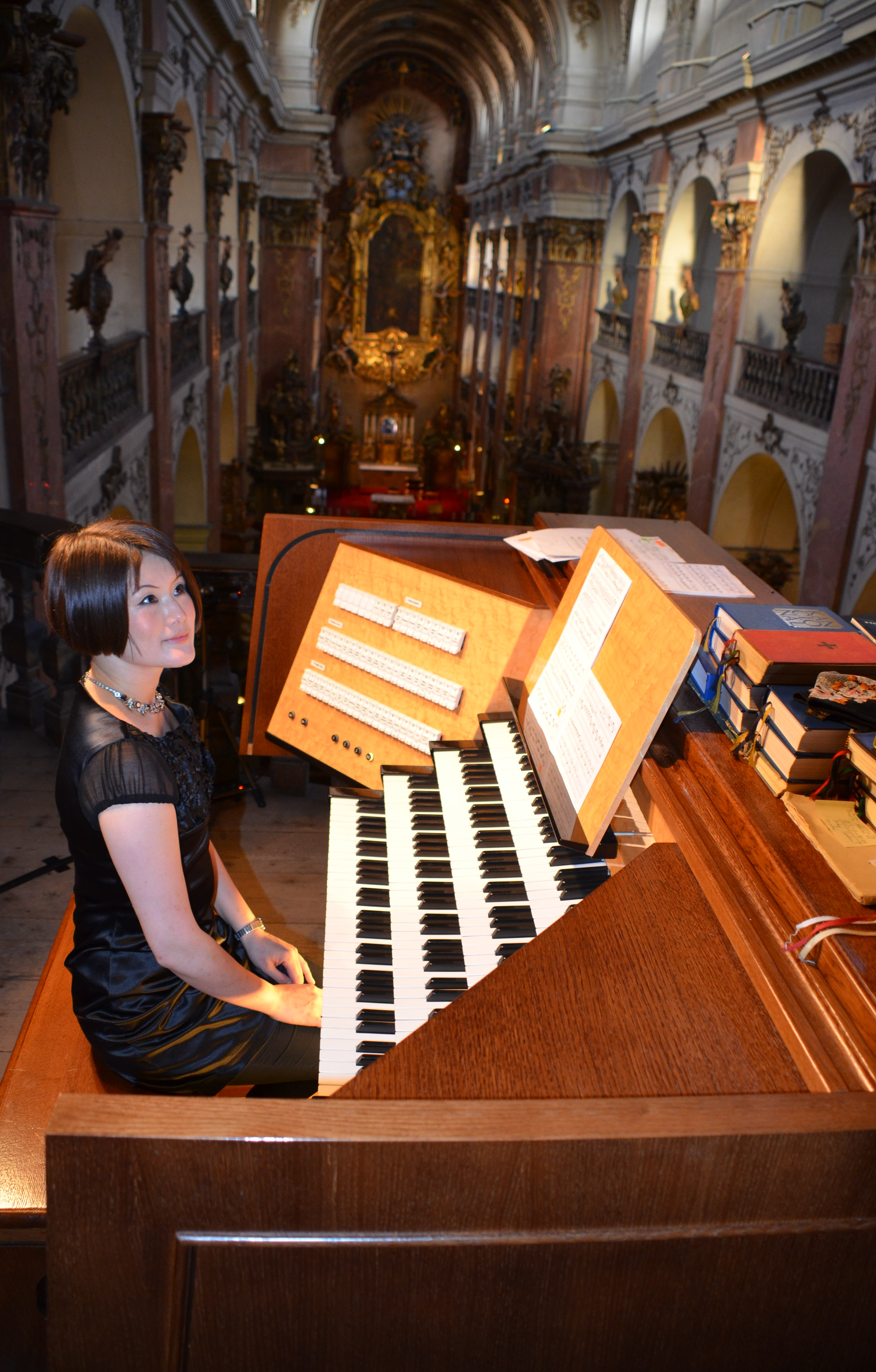 Eiko Maria Yoshimura in the church of Saint James, Prague, Czech Republic.